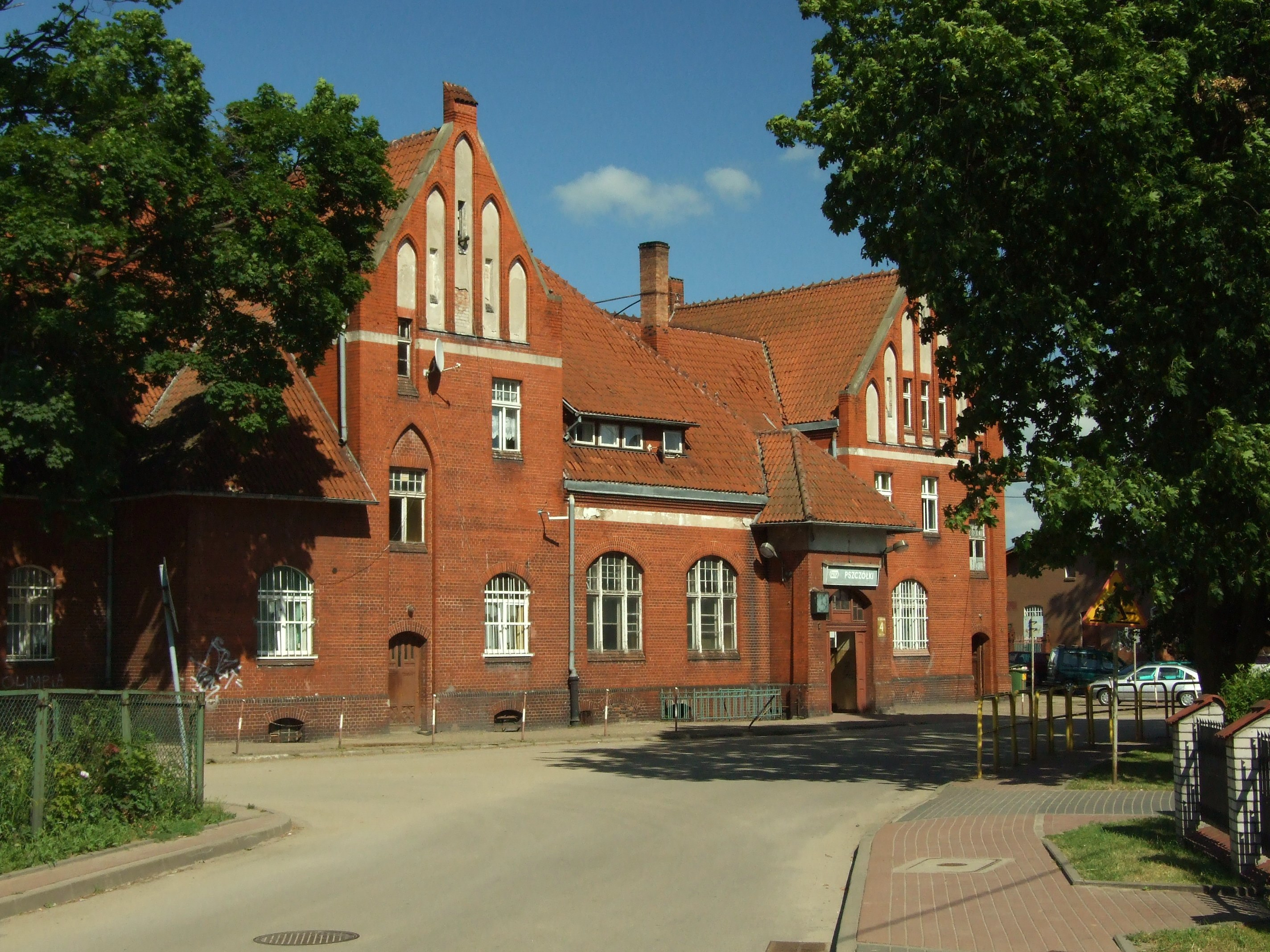 Train station building (working as a library as well) in Pomorskie voivodship in Poland